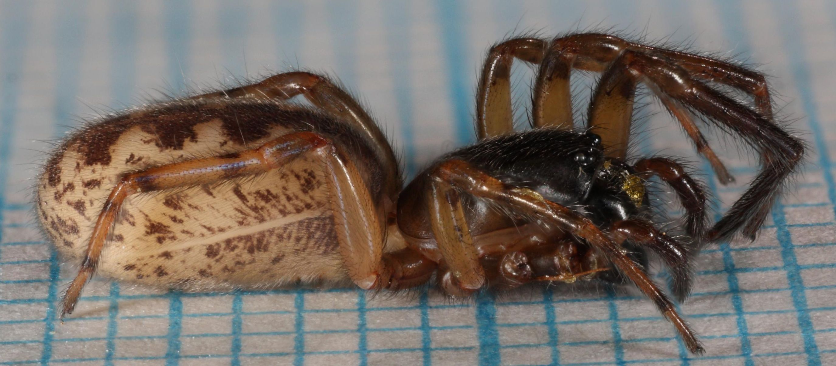 Female Segestria senoculata